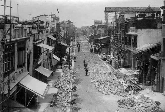 The Bo Wah Road(Baohua Rd.) in Saikwan, Canton, China.